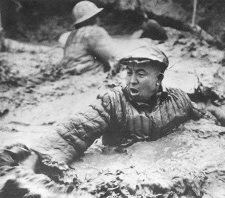 Wang Jinxi blocking the blowout in a waist-deep mud pool